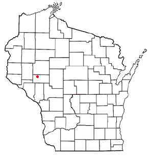 Category:Images of Eau Claire, Wisconsin